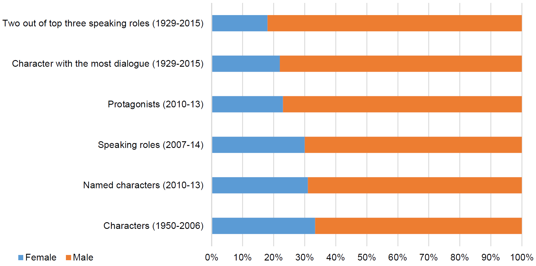 Graph showing results from four studies measuring the presence of female and male characters in film. The sources are: 1929-2015: Anderson, Hanah; Daniels, Matt. "The Largest Analysis of Film Dialogue by Gender, Ever". Polygraph. 1950-2006: Bleakley, A.; Jamieson, P. E.; Romer, D. (2012). "Trends of Sexual and Violent Content by Gender in Top-Grossing U.S. Films, 1950–2006". Journal of Adolescent Health 51 (1): 73–79. PMID 22727080 2007-14: Smith, Stacy L.; Choueiti, Marc; Pieper, Katherine; Gillig, Traci; Lee, Carmen; Dylan, DeLuca. "Inequality in 700 Popular Films: Examining Portrayals of Gender, Race, & LGBT Status from 2007 to 2014". USC Annenberg School for Communication and Journalism. 2010-13: Smith, Stacy L.; Pieper, Katherine. "Gender Bias Without Borders: An Investigation of Female Characters in Popular Films Across 11 Countries". See Jane. Data: Characters (1950-2006): female 33%, male 66% Named characters (2010-13): female 31%, male 69% Speaking roles (2007-14): female 30%, male 70% Protagonists (2010-13): female 23%, male 77% Character with the most dialogue (1929-2015): female 22%, male 78% Two out of top three speaking roles (1929-2015): female 18%, male 82%